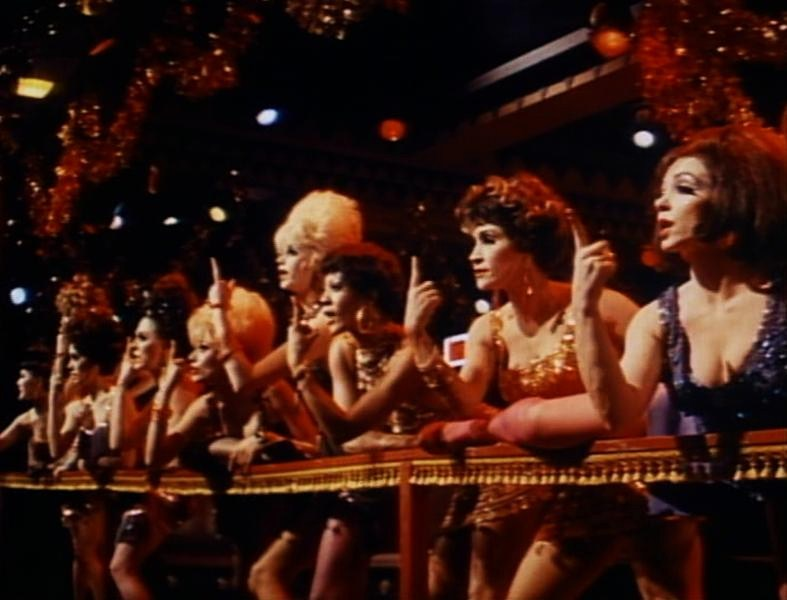 Chita Rivera (second from right) & Paula Kelly (third from right) in Sweet Charity - trailer (cropped screenshot)